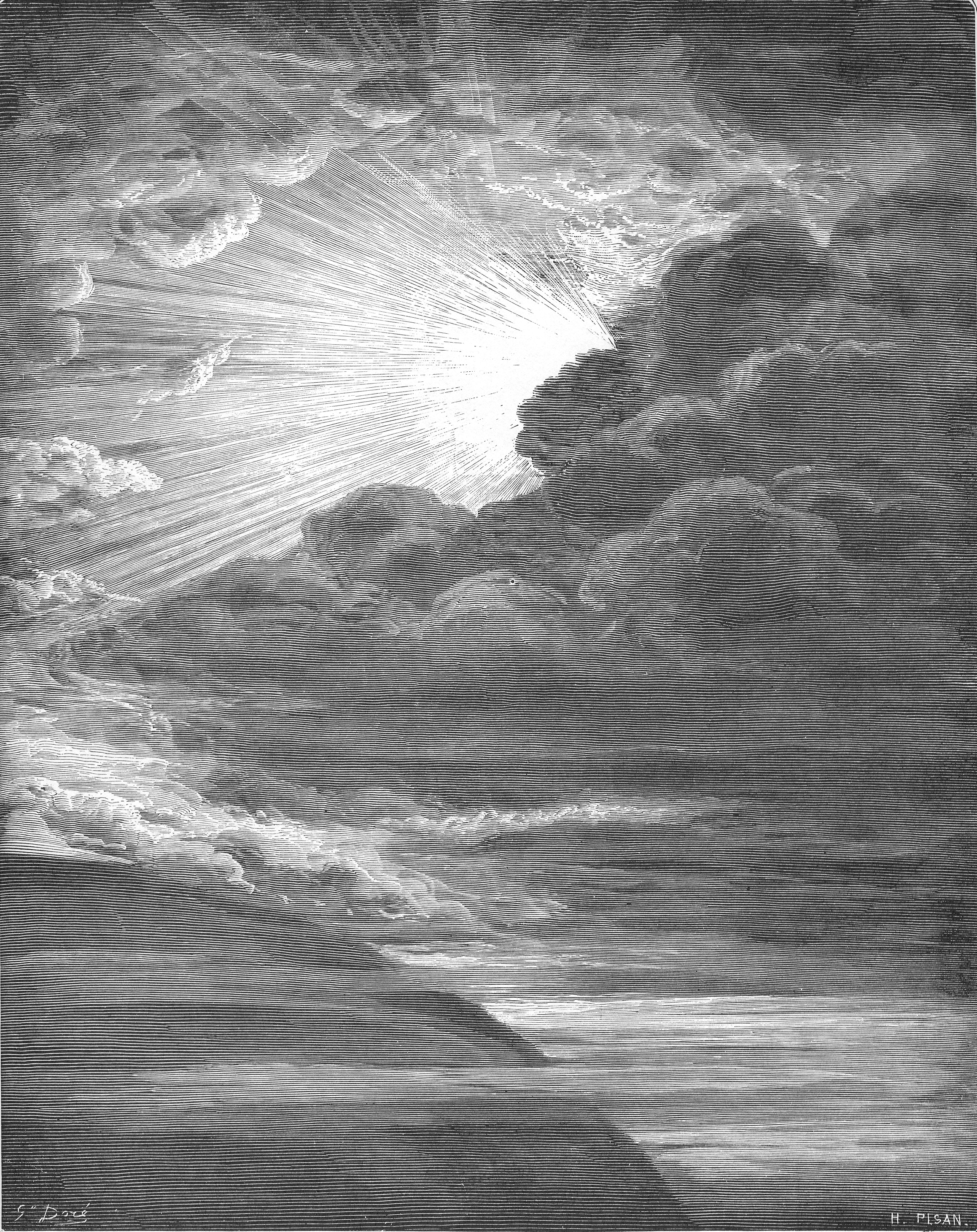 The Creation of Light (Gen. 1:1-5)